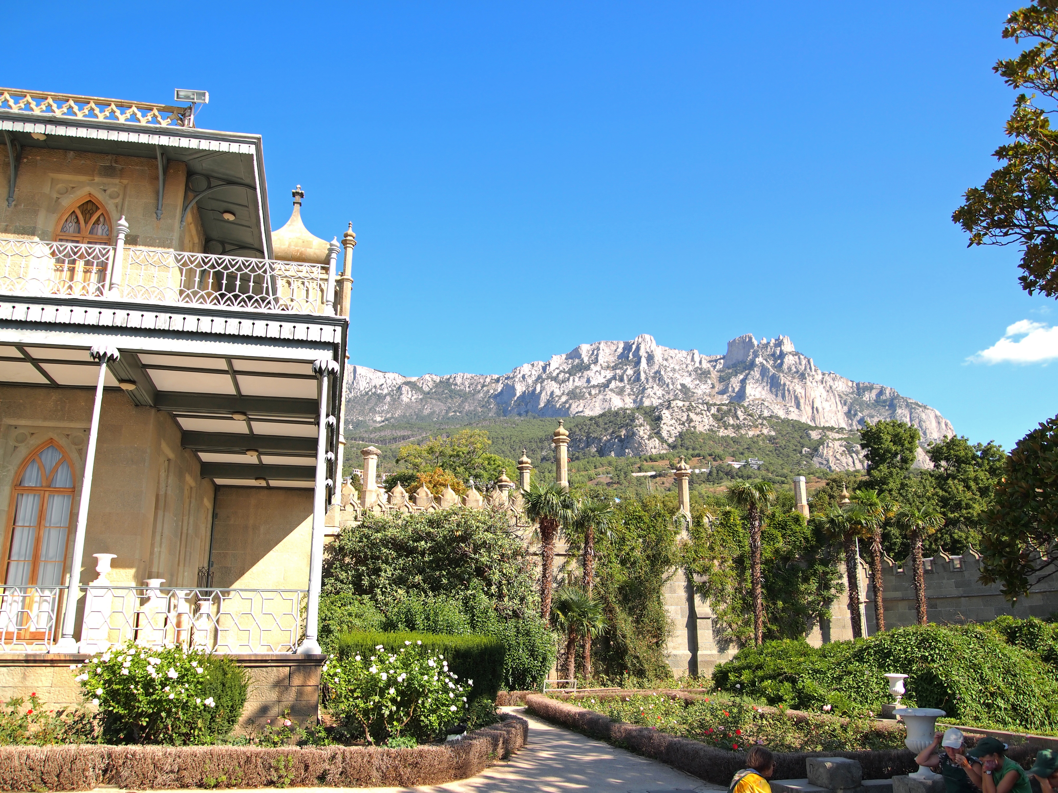 View in the yard of Alupka castle. On the left is the castle and on the background is Ai-Petri mountain. This photograph was taken with a Olympus E-PL1.